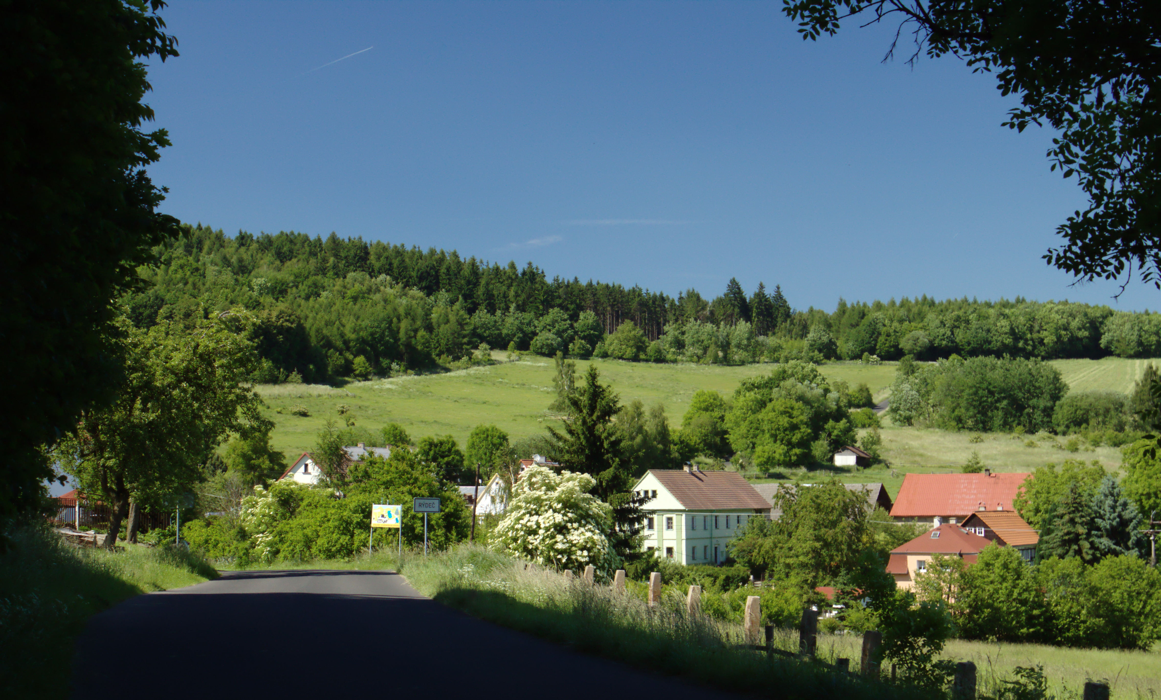 View of the Rýdeč village from south, Ústí Region, CZ